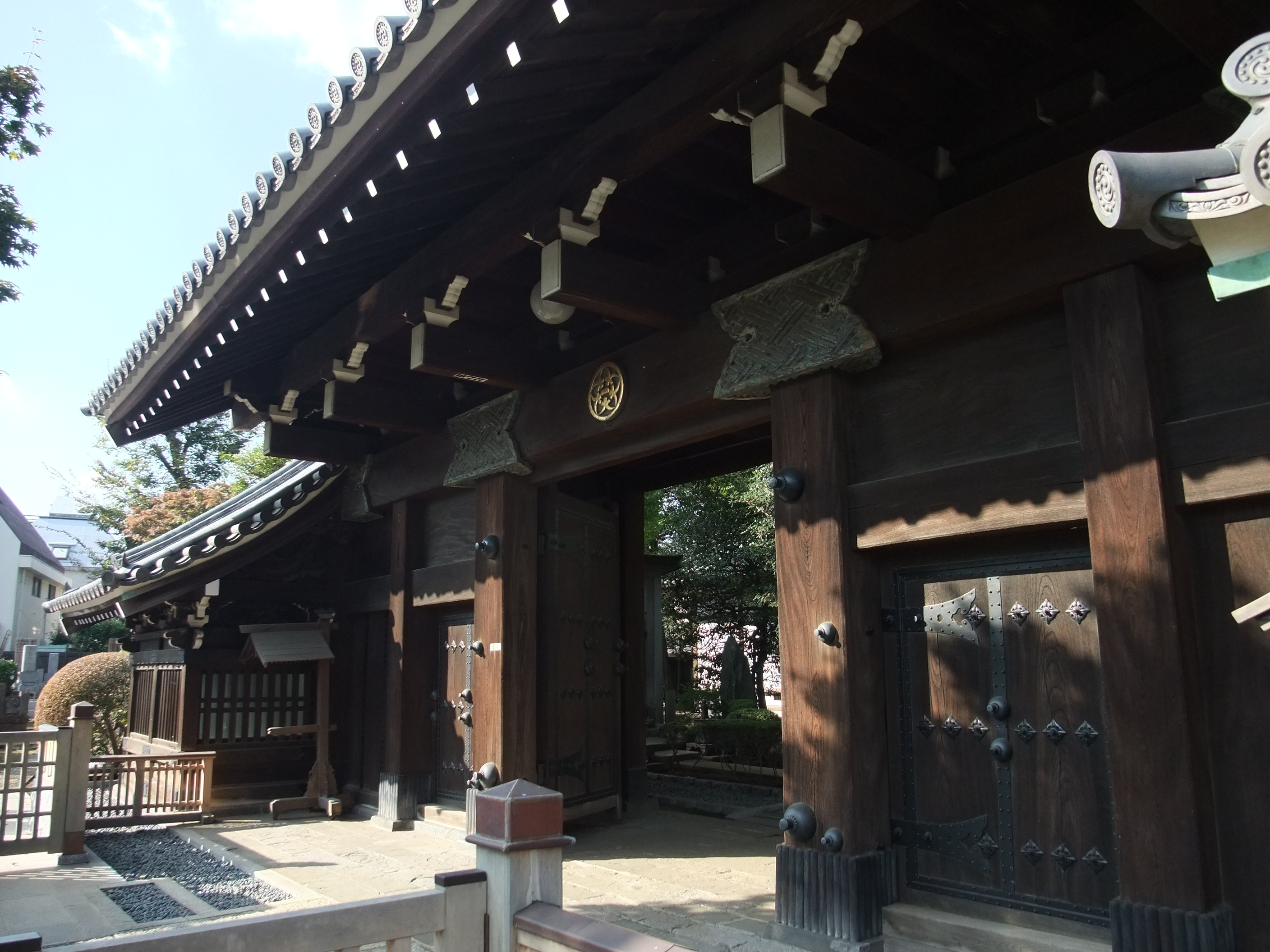 Former Main Gate of Samurai Residence (武家屋敷門) at Saicho-ji (西澄寺)